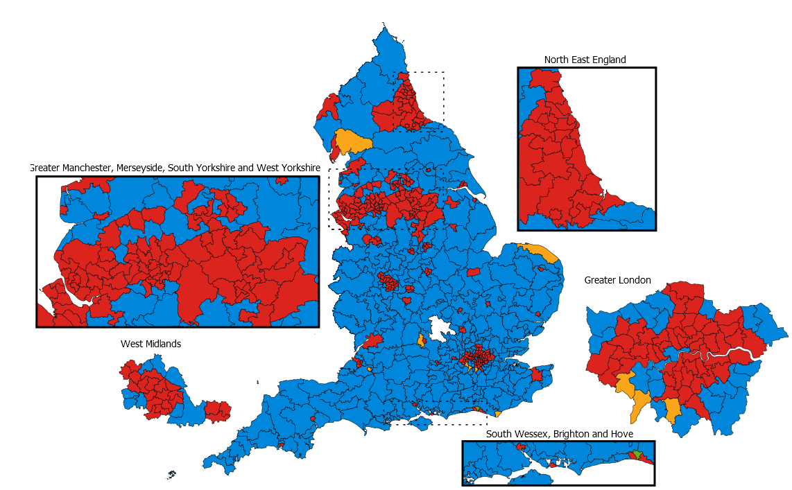 Map showing MPs elected to English seats from the 2017 General Election. Does not include subsequent byelections and other changes in between then and the upcoming 2019 General Election